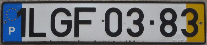 This file represents a rare Portugal, to be precise an Azores tractor plate. Number "1" = tractor; "LGF" = Lajes das Flores, then there are two groups of digits separated by a dot.